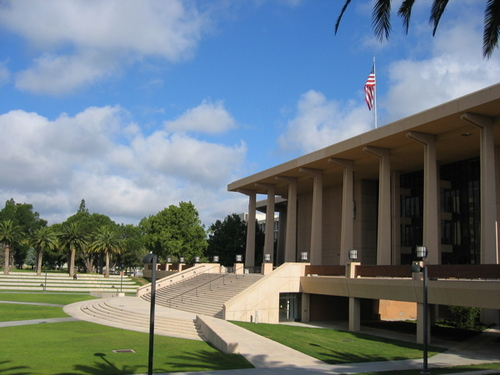 The Oviatt Library building (2009) — at California State University, Northridge in the San Fernando Valley, Los Angeles, California.